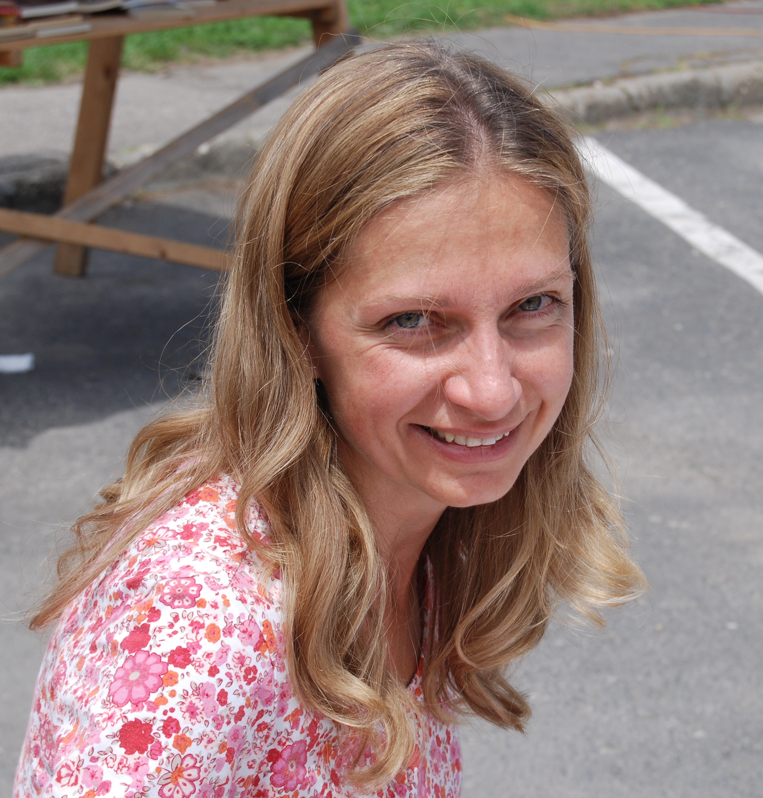 Natália Nagy in Tata city